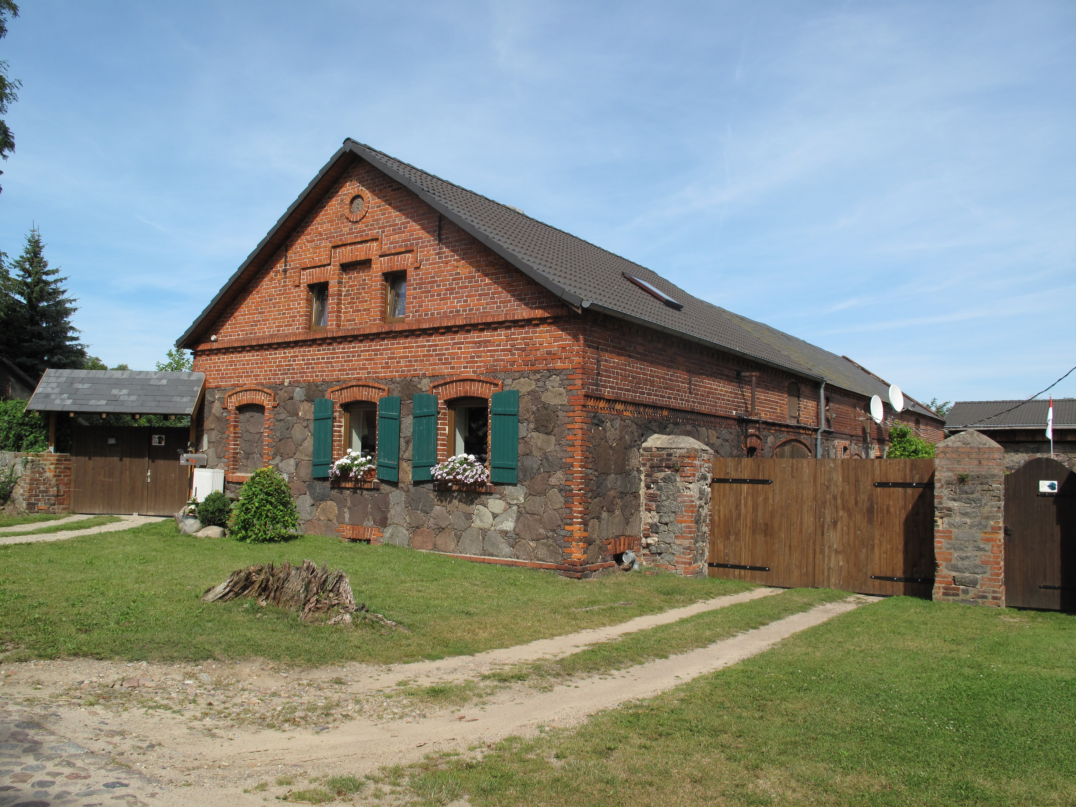 The village Grunow is a civil parish (Ortsteil) of the municipality Oberbarnim in the District Märkisch-Oderland, Brandenburg, Germany. Grunow was first mentioned in written documents in 1315 and is situated on the Barnim Plateau in the Märkische Schweiz Nature Park. In 2010 the village had about 350 inhabitants (incl. it’s part Ernsthof). Due to its fieldstone-Builsdings and –streets Grunow is a part of the Oberbarnimer Feldsteinroute, a 41,5 kilometers long walking and bike trail in the traces of the building material fieldstone.